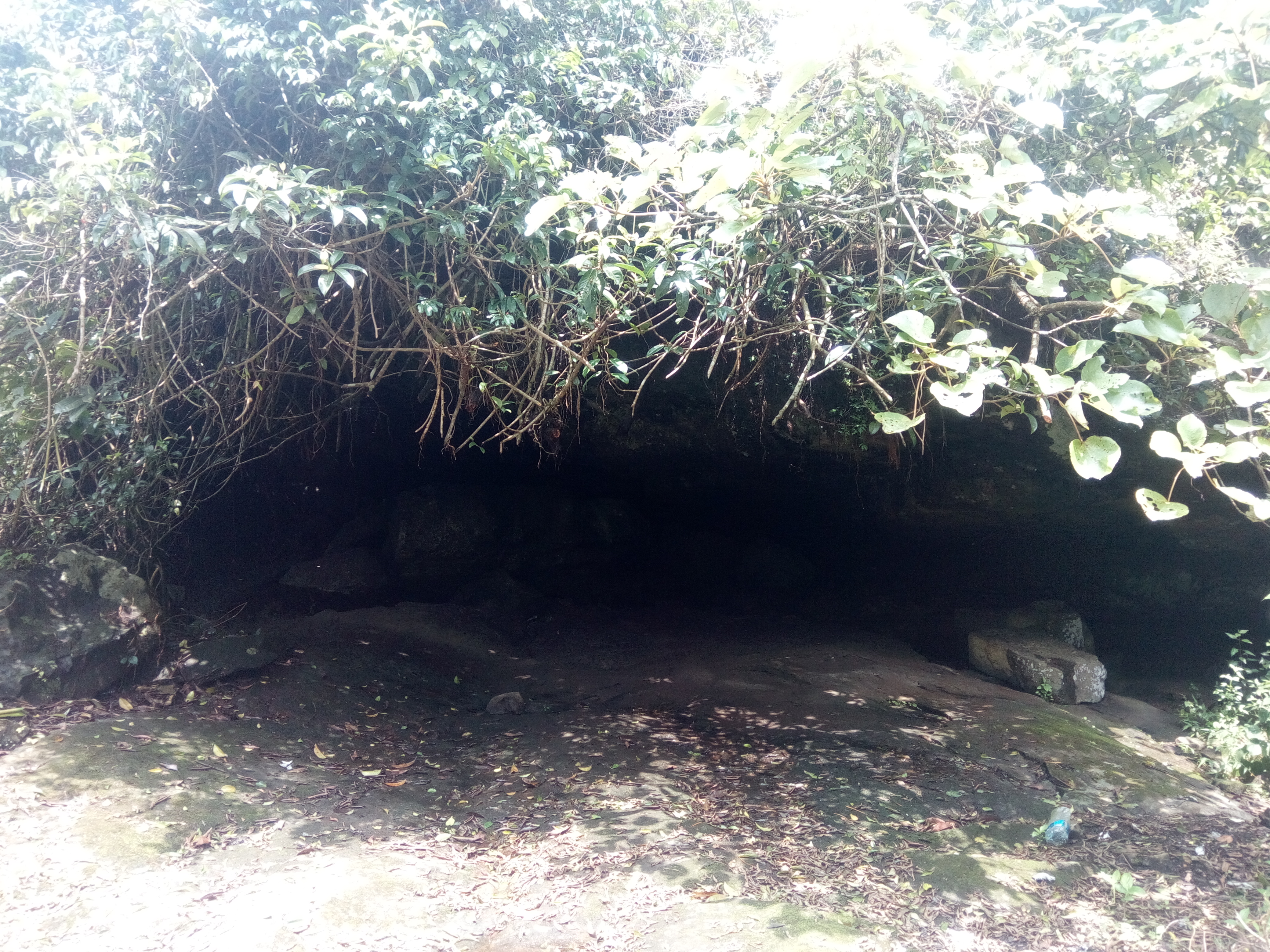 Pazhassi cave is in kakkadampoyil, near nilampur. Malappuram dist. Kerala, India. It is a secret cave used by pazhassi raja. The route to this cave is very narrow through Forest.